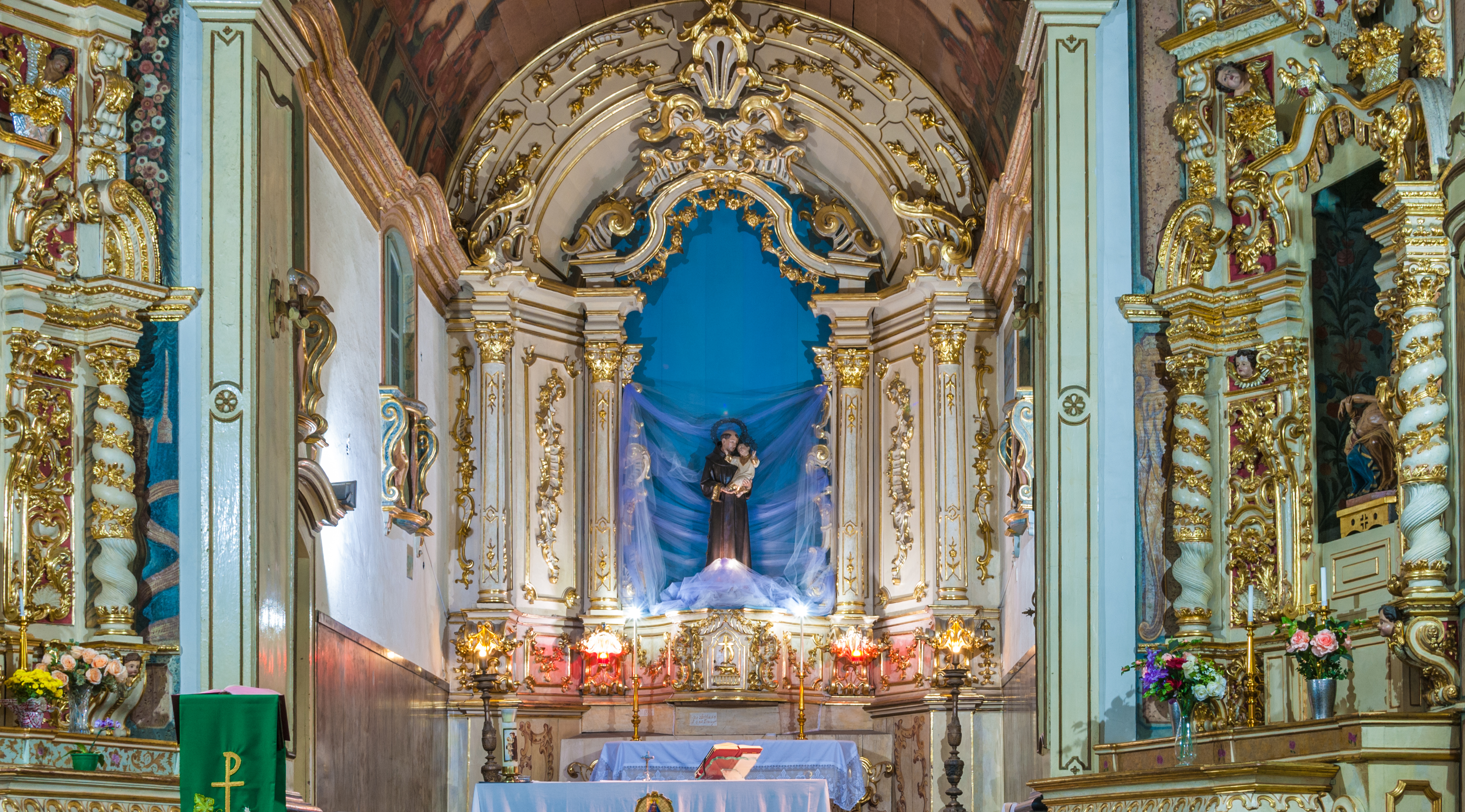 Santo Antônio Church Interior, São Paulo, Brazil